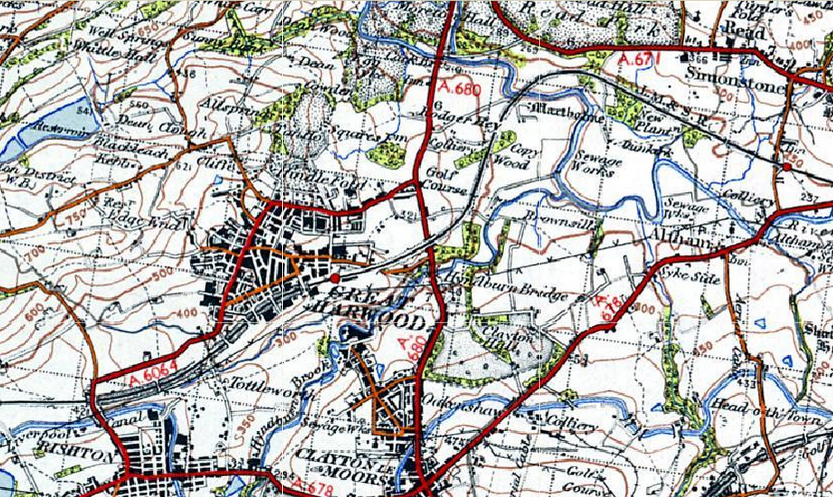 Ordnance Survey map of part of Lancashire, England ca.1948 showing locations of railway station and local connections between Blackburn and Padiham